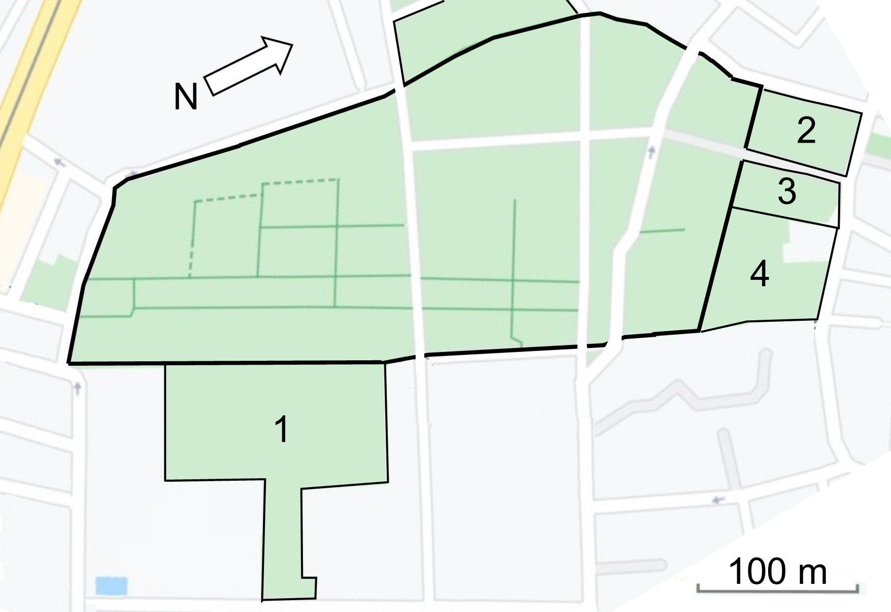 Outline of Somei cementary, Tokyo